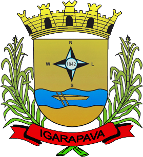 Seal/Coat of Arms of Igarapava